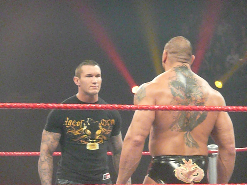 Taken at the Manchester Evening News arena, 10th November 2008 at the WWE Raw taping.